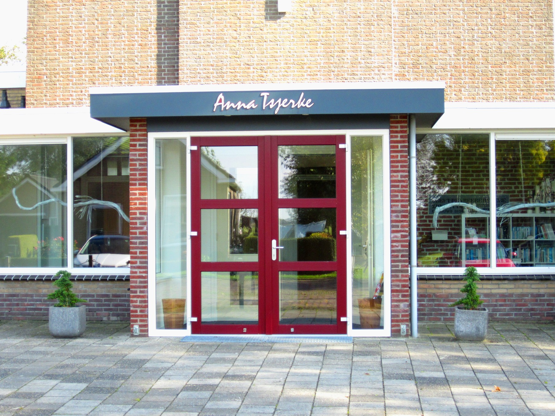 Main entrance of the Annatsjerke (Anna's Church), Winsum, Friesland, The Netherlands, the church building of the former Gereformeerde Kerken in Nederland. (The church is not named for a saint, but for a protestant missionary from Winsum killed in Africa.) Photograph taken on September 20th, 2017.